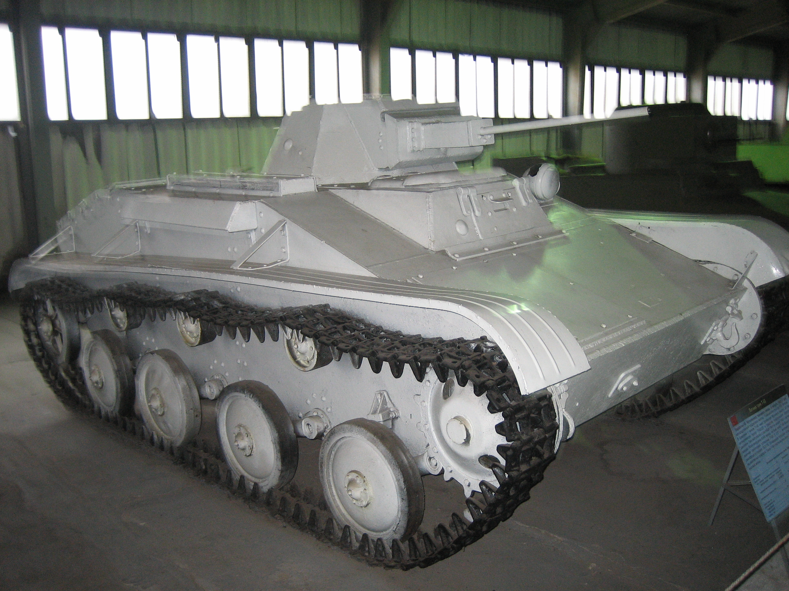 Soviet light infantry tank T-60, displayed in Kubinka Tank Museum. Photo taken on September 23, 2006. Source: Photo by me, User:Saiga20K.